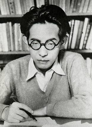 Japanese writer Tatsuo Hori.